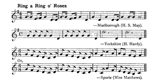 Three different versions of the music to Ring a Ring o' Roses.